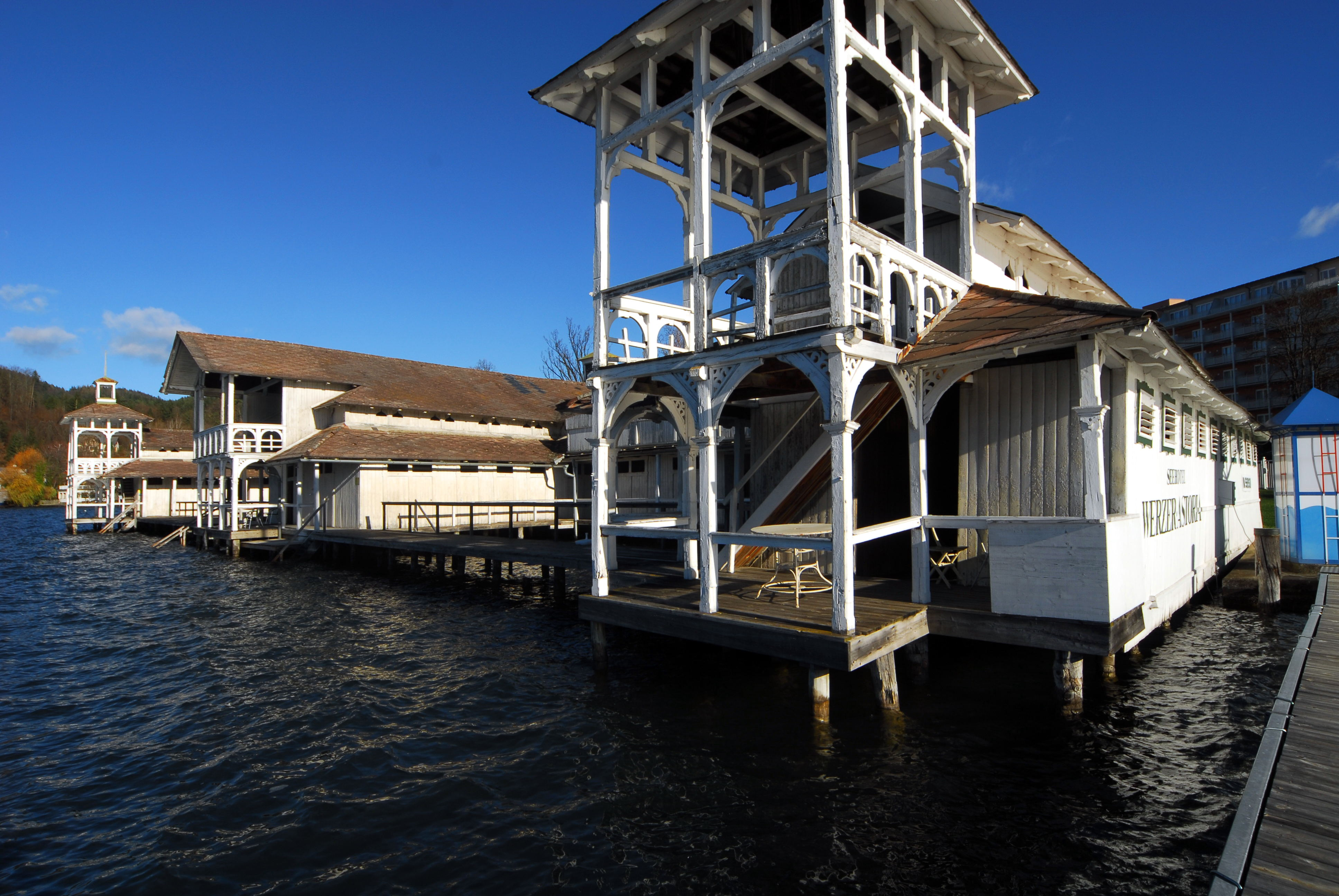 Bath establishment, 1895, architect Josef Viktor Fuchs, Art Nouveau architecture, view from south-west, Wörthersee architecture, Werzer Strand #16, municipality Poertschach on the Lake Woerth, district Klagenfurt Land, Carinthia / Austria / EU}